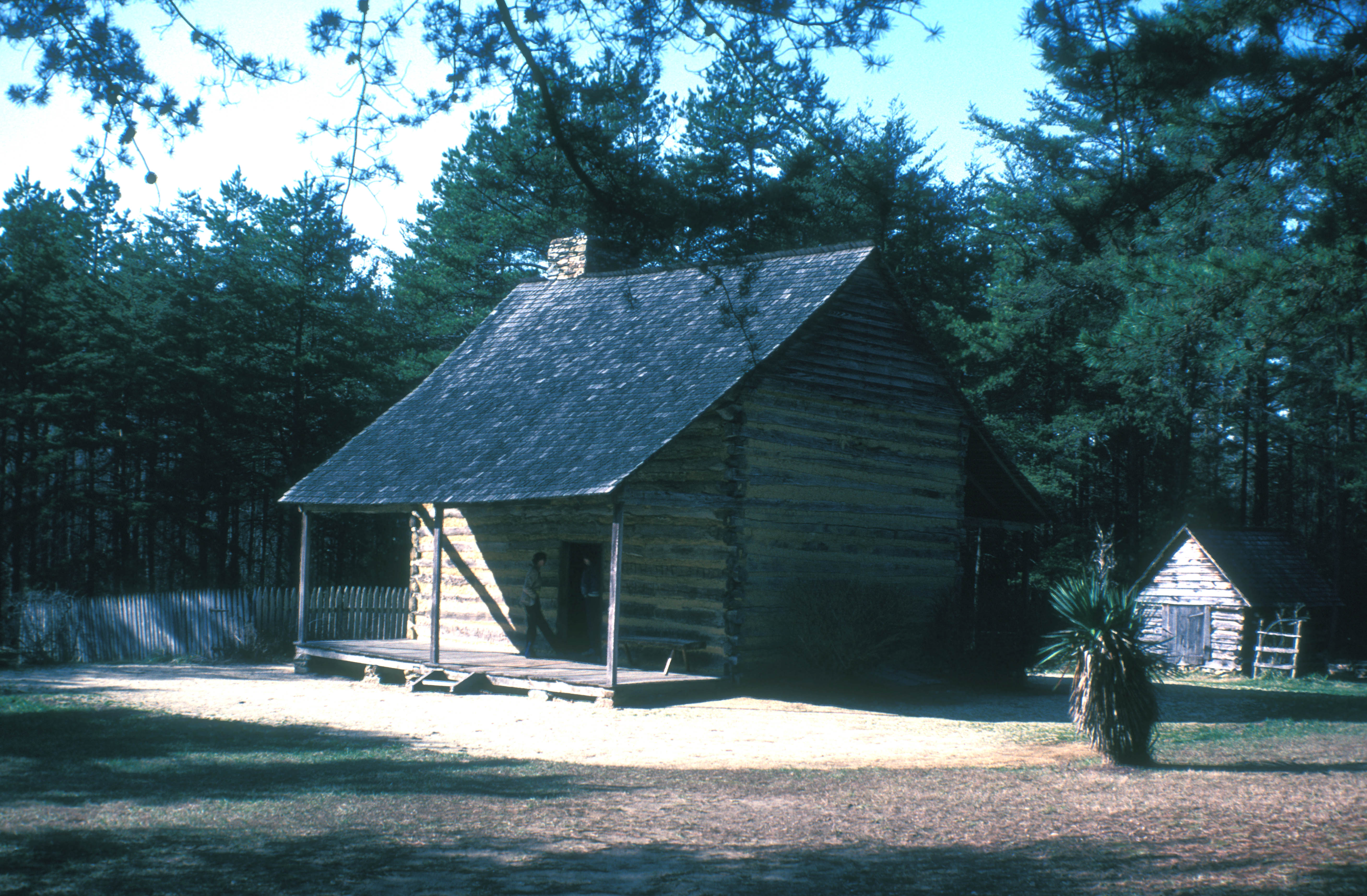 BUILT IN 1780 BY JOHN ALLEN